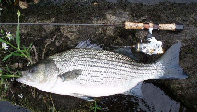 Hybrid Striped Bass from the Coosa River, Wetumpka, Alabama (Released)